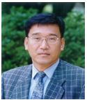 Prof. Suh Dept. IME of POSTECH